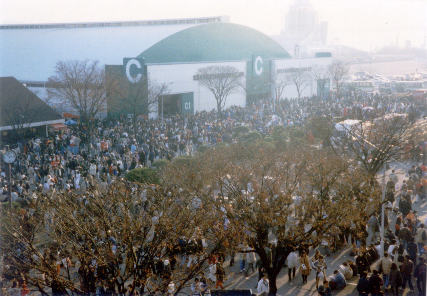 comic market 49